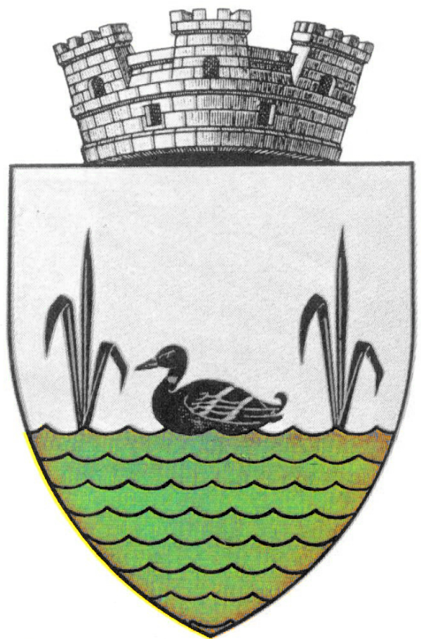 Interwar coat of arms of Fălești, Bălți County, Kingdom of Romania.